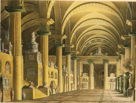 Lithograph: the set for Gioacchino Rossini's opera Zelmira